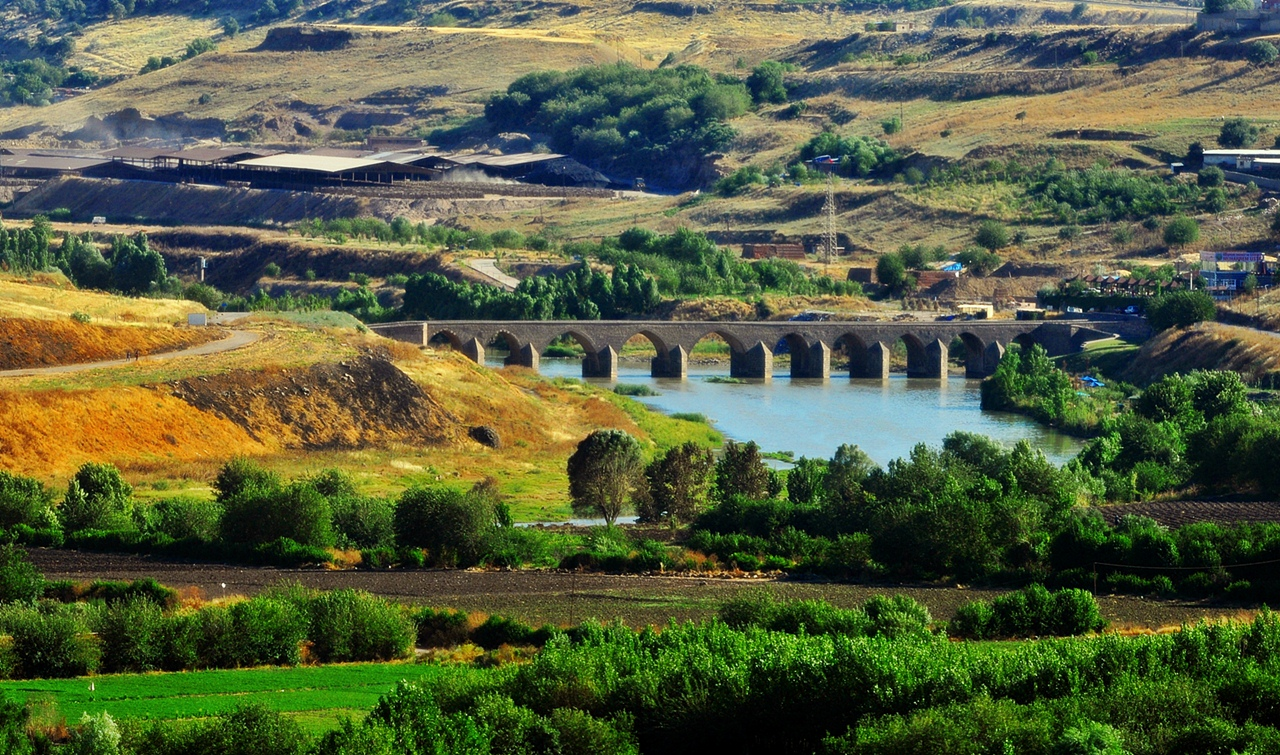 Hevsel Gardens and Ten-Arched Bridge, Diyarbakır, Diyarbakır Province, TurkeyKurdî: Baxçeyên Hewselê û Pira Dehderî, Amed, TirkiyeTürkçe: Hevsel Bahçesi ve On Gözlü Köprü, Diyarbakır, Diyarbakır ili, Türkiye